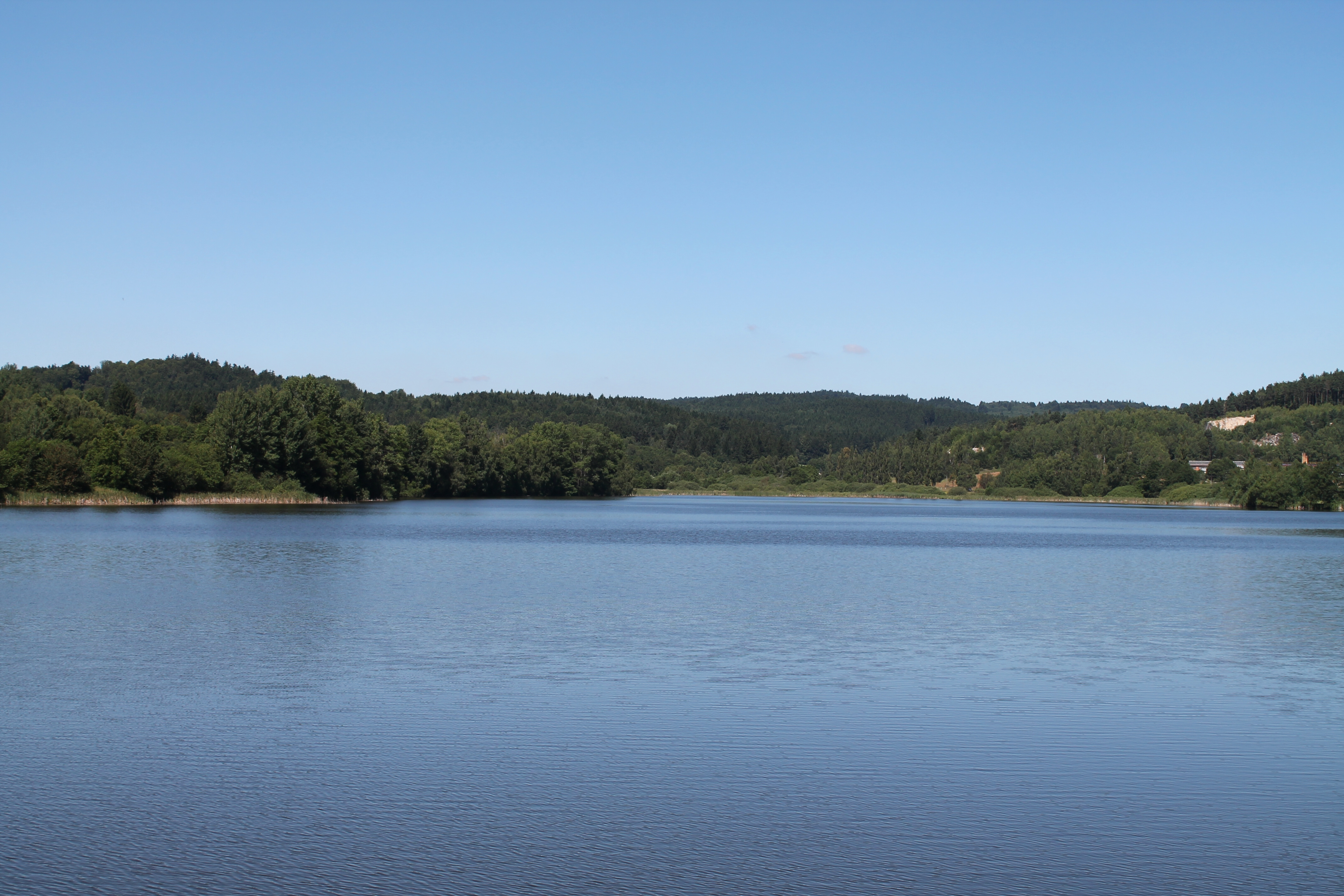 Řibřid pond , Mrákotín, Jihlava District, Czech Republic